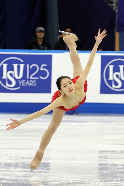 Zijun LI CHN – 7th Place